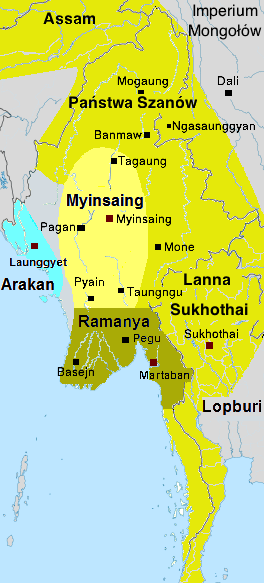 Burma circa 1310 showing Myinsaing Kingdom, Ramanya, Arakan and the Tai-Shan realm Based on map in Lieberman (2003), p. 26 (Polish geographical names)